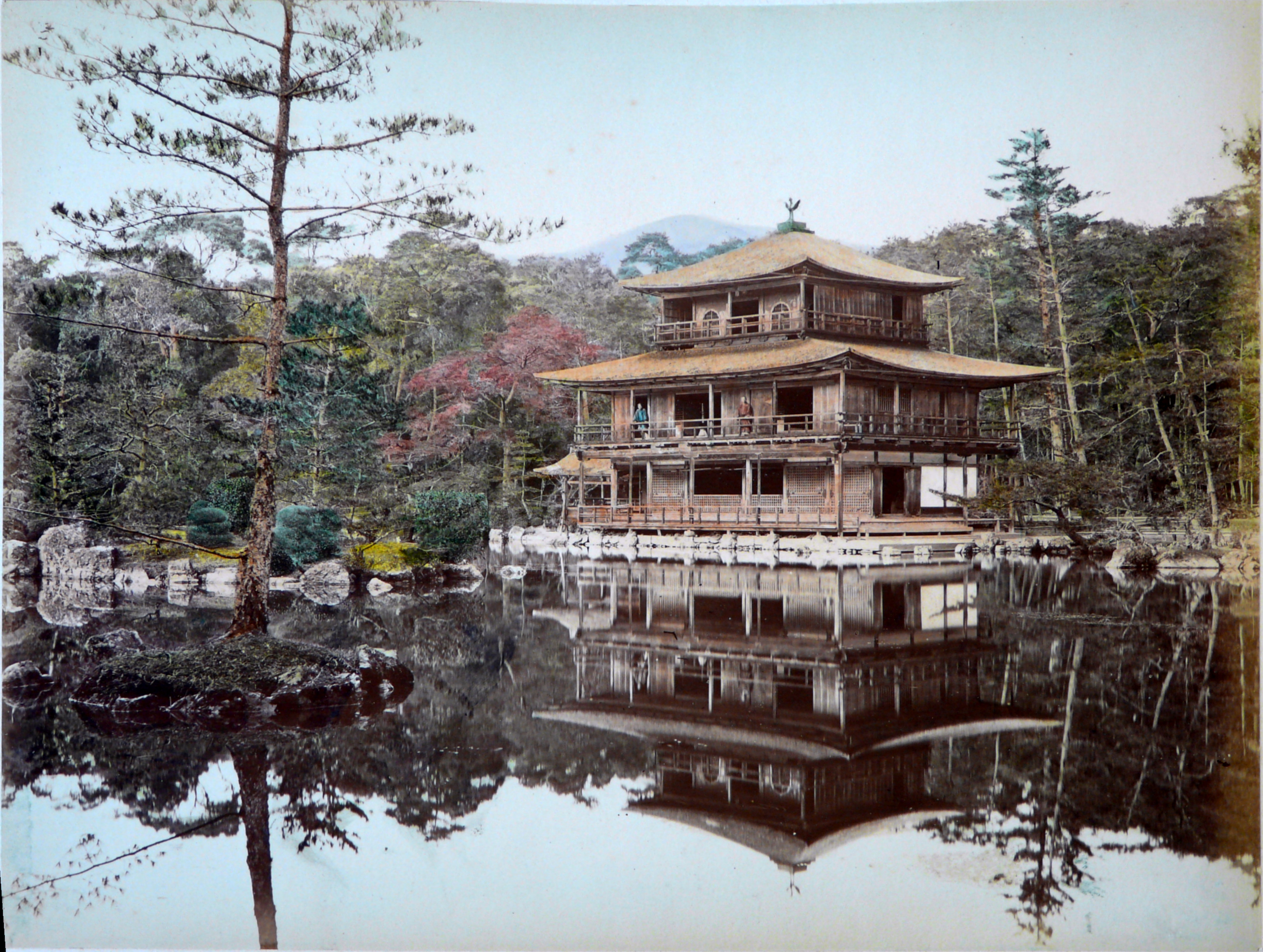 Painted photograph from Japan, dating from before 1886, according to a written note on the album containing the photographs. Presumed Author of the original photographs: Adolfo Farsari.